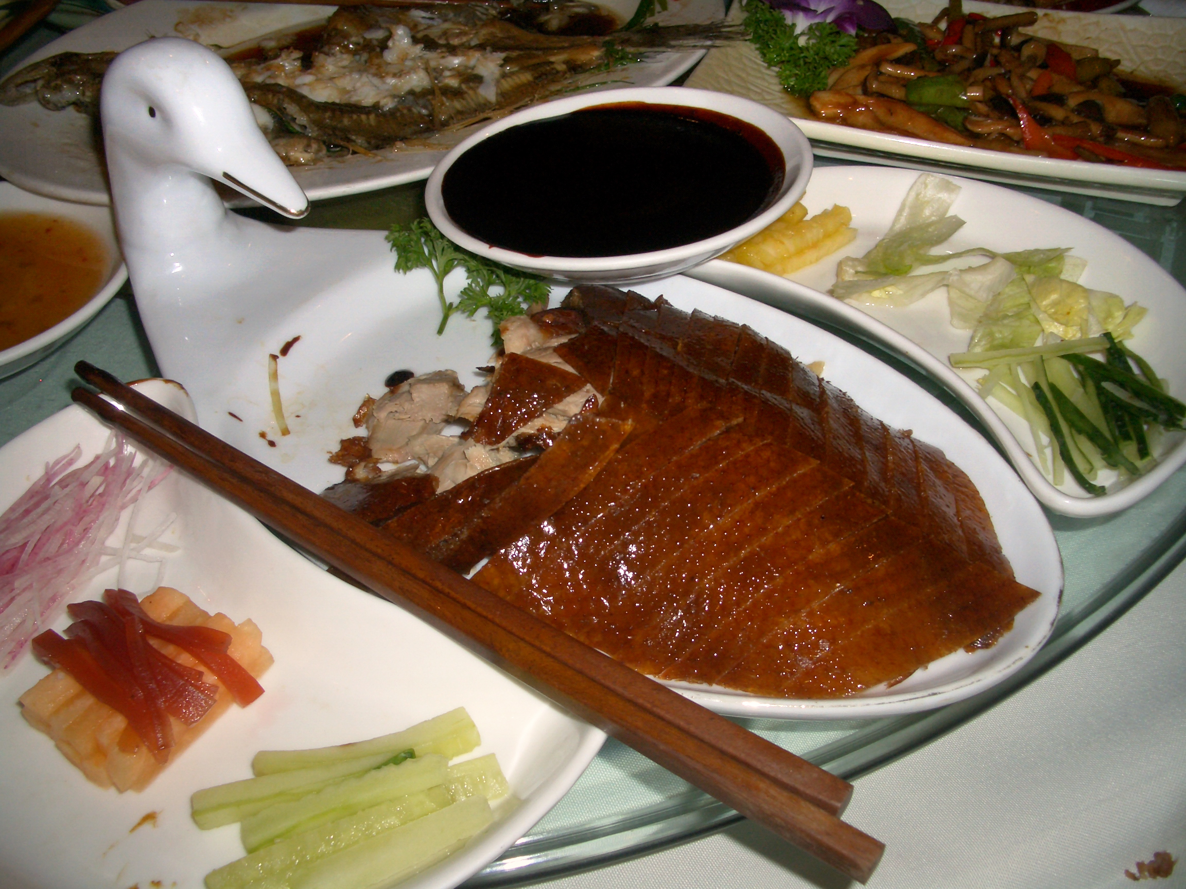 Cuisine of China: Peking Duck served with traditional condiments